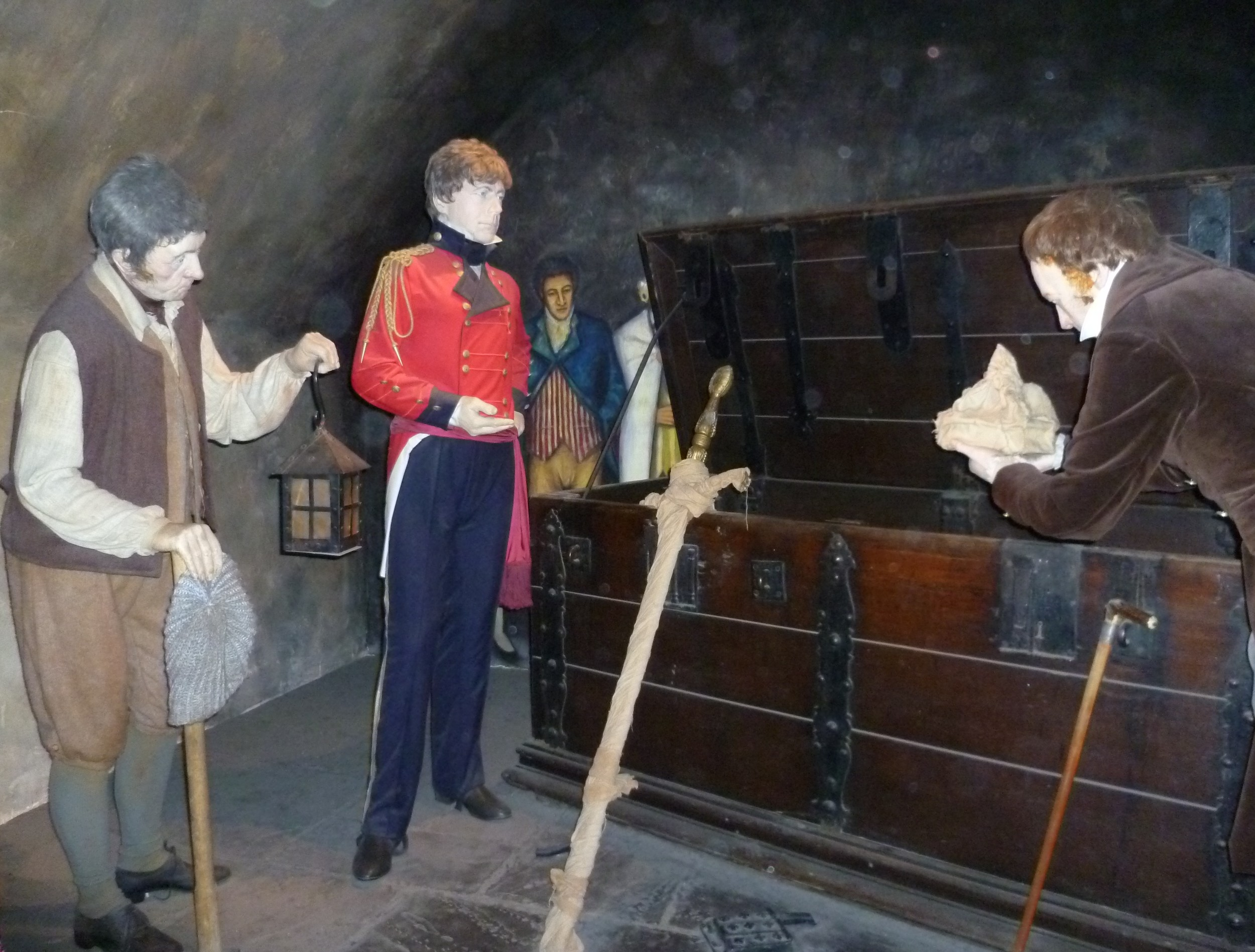 Sir Walter Scott and the Governor of Edinburgh Castle rediscover Scotland's 'lost' Crown, Sceptre and Sword of State in 1818. A tableau in the Castle. "The extreme solemnity of opening sealed doors of oak and iron, and finally breaking open a chest which had been shut since 7th March 1707, about a hundred and eleven years, gave a sort of interest to our researches, which I can hardly express to you, and it would be very difficult to describe the intense eagerness with which we watched the rising of the lid of the chest, and the progress of the workmen in breaking it open, which was neither an easy nor a speedy task. (...) The discovery of the Regalia has interested people's minds much more strongly than I expected, and is certainly calculated to make a pleasant and favourable impression upon them in respect to the kingly part of the constitution. It would be of the utmost consequence that they should be occasionally shown to them, under proper regulations, and for a small fee." -- Sir Walter Scott, letter to J. W. Croker M.P., 5th February, 1818